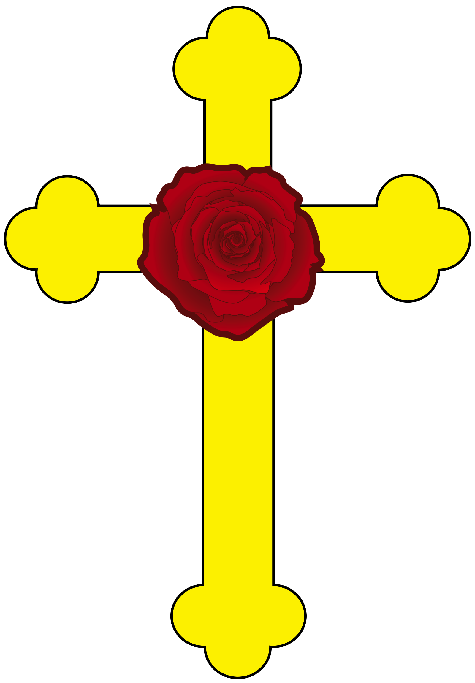 Rosy Cross as used by Rosicrucianism.